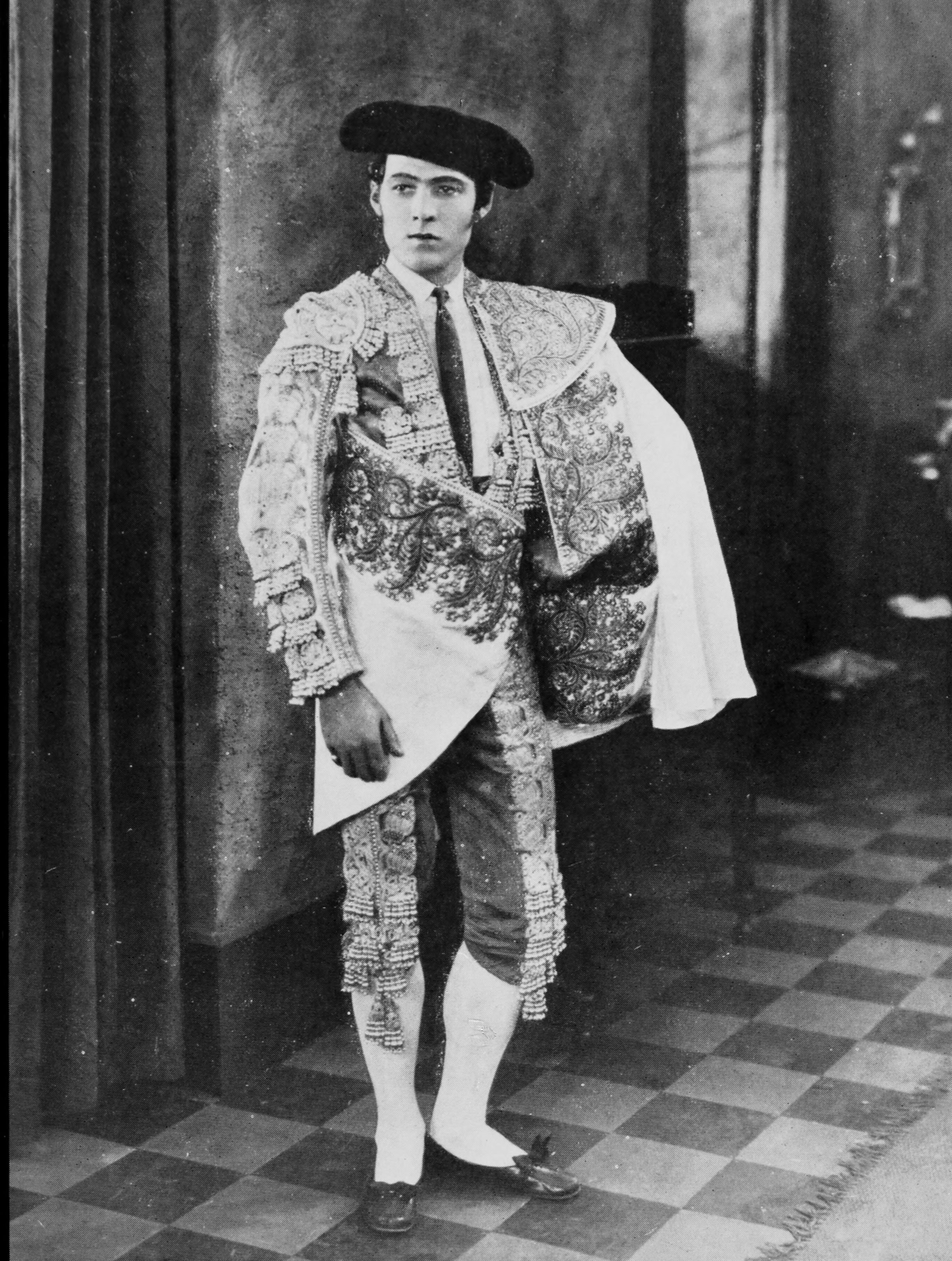 Rudolph Valentino as Juan Gallardo